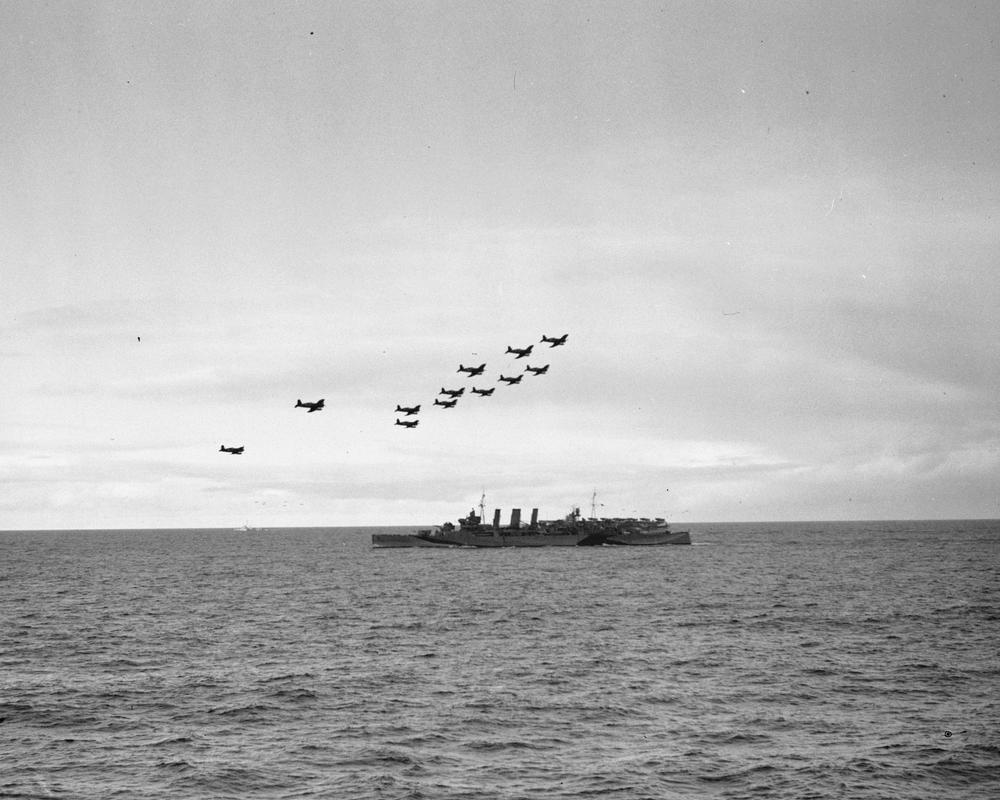 Thirteen Chance-Vought Corsairs flying in formation over the cruiser HMS KENT, as seen from the escort carrier HMS Trumpeter.